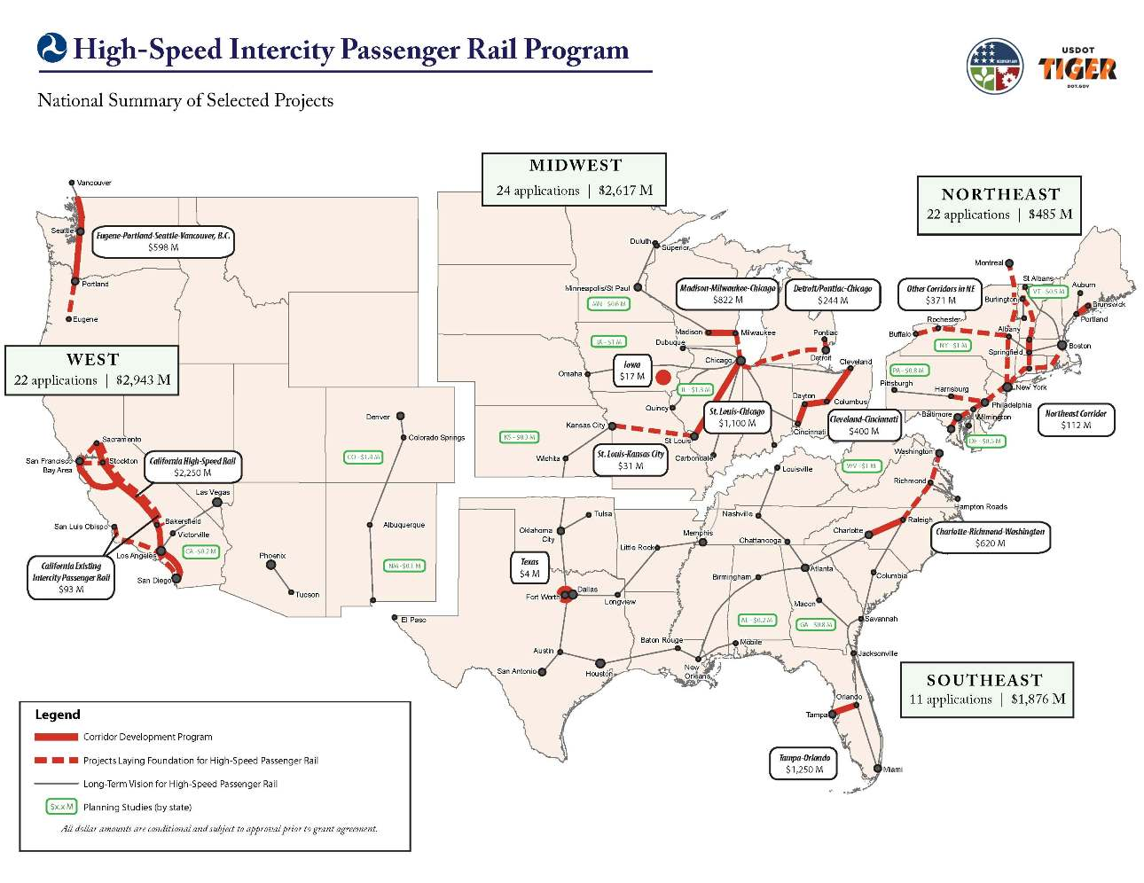 A more detailed map of the grants awarded from the $8 billion for high speed rail in the American Recovery and Reinvestment Act of 2009.